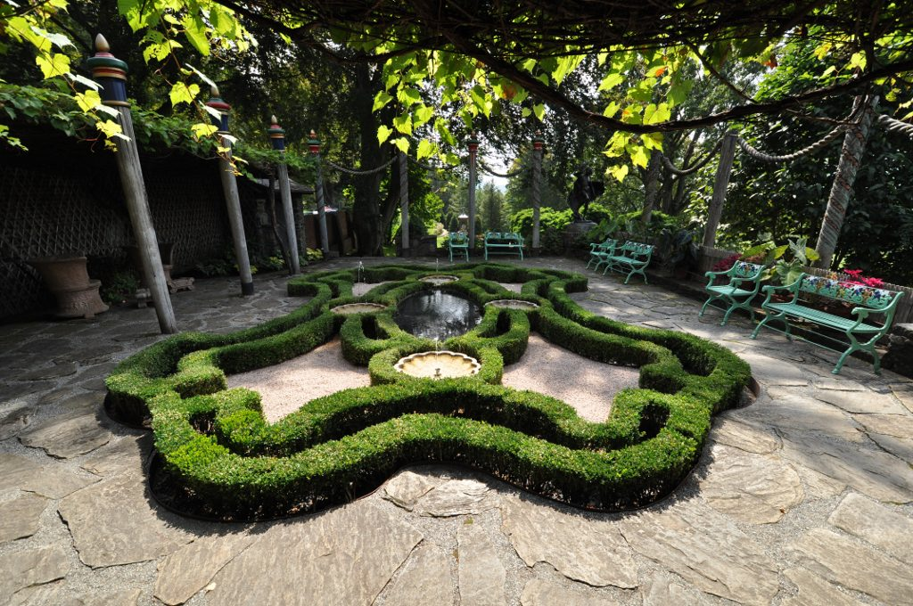 Naumkeag estate, Stockbridge, MA. The "afternoon garden".